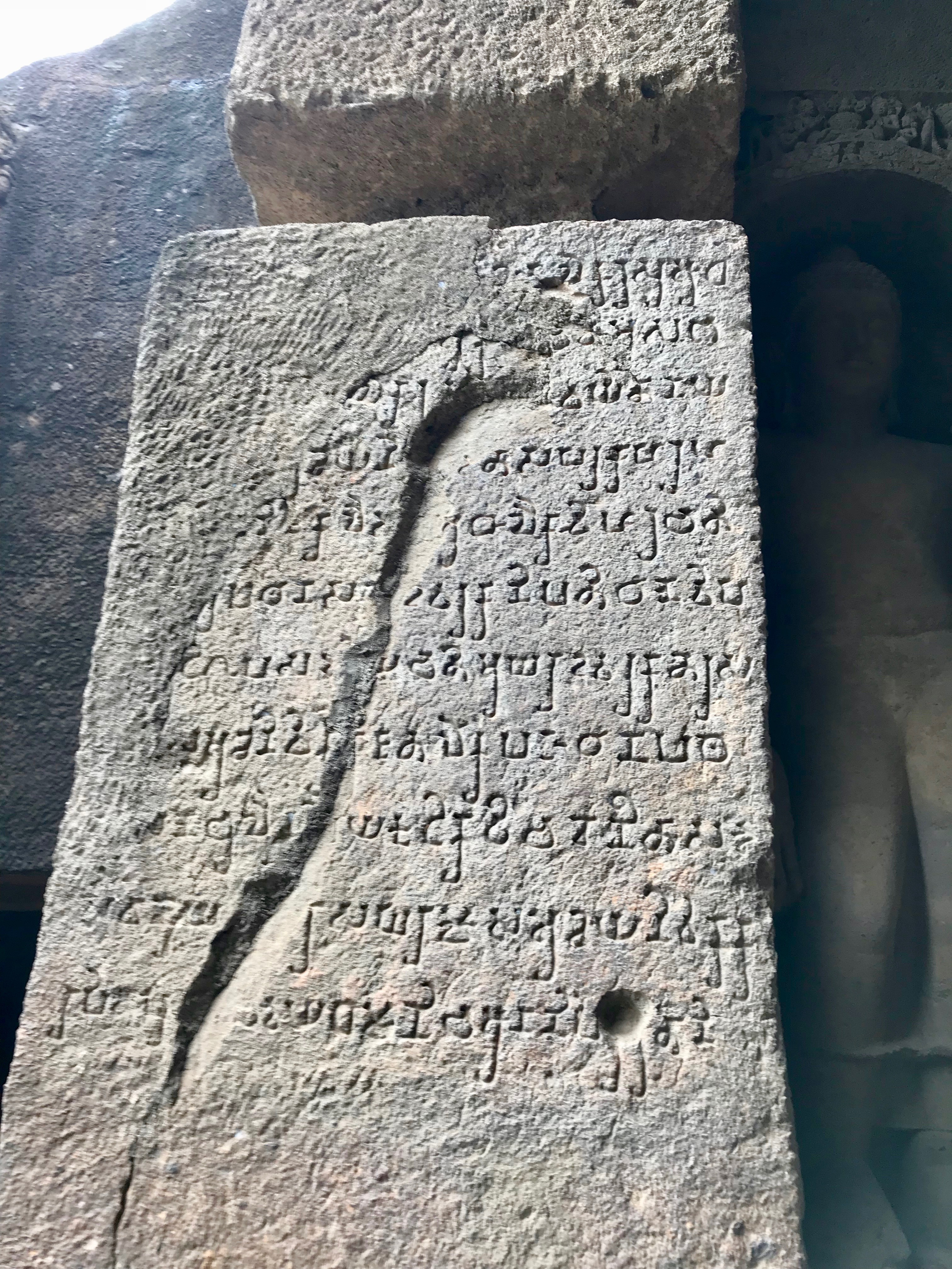 Kanheri caves have more than 100 inscriptions. The vast majority of these are in Brahmi script, two in early Devanagari, three in Pallavi script. Most are Prakrit language inscriptions, two are ancient Sanskrit. The inscriptions range from 2nd-century BCE to 15th-century. About 30 inscriptions are from the 2nd-century CE, about 50 are from the 5th- and 6th-centuries CE. They are dedicatory but contain information about the Indian culture and religious practices as well. The above inscription is found near the entrance of Cave 3, Kanheri (Krishnagiri) caves.